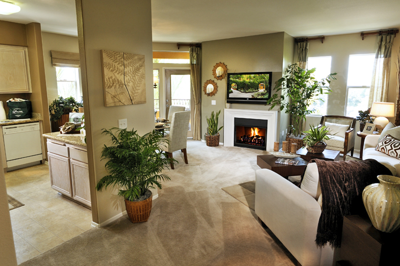 The interior of one of AIMCO's apartment homes